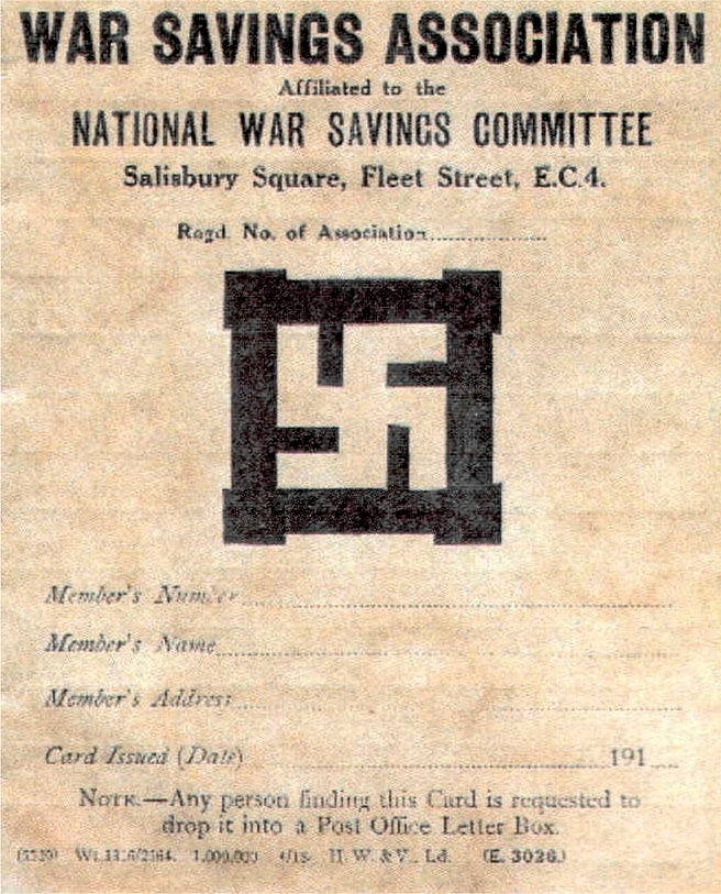 War Savings Association membership card (front) from the 1910s.